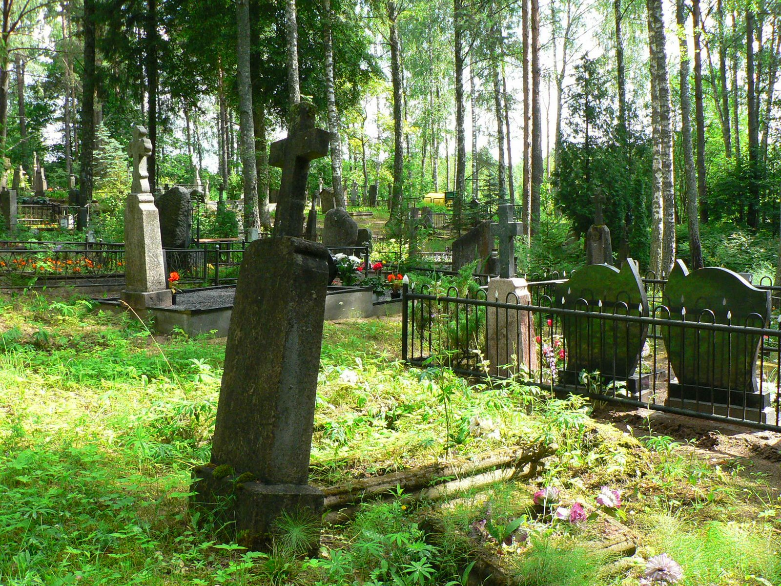 Cemetery of Baltriškės village, Lithuania